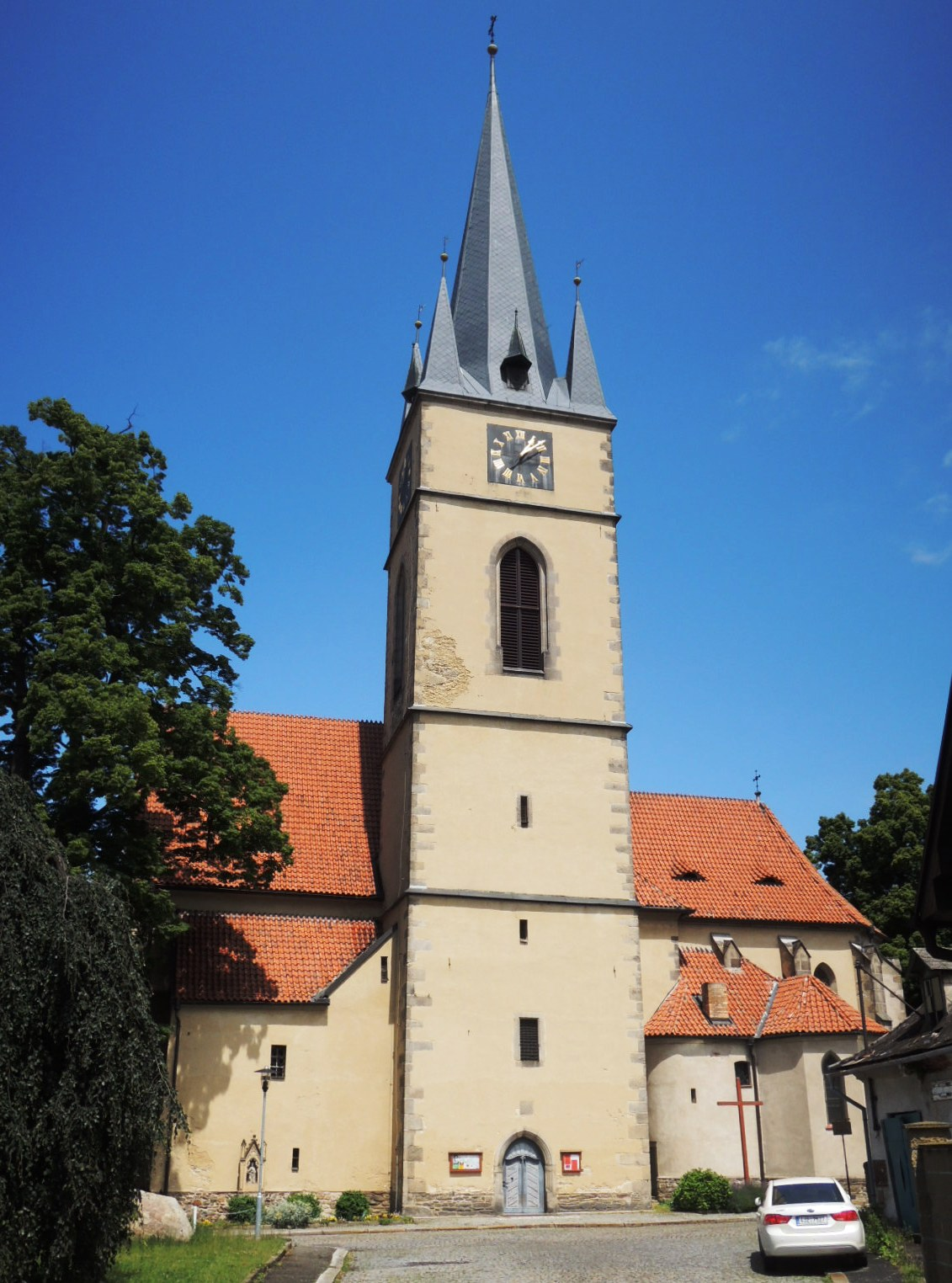 Ledeč nad Sázavou, St. Peter and Paul church from south